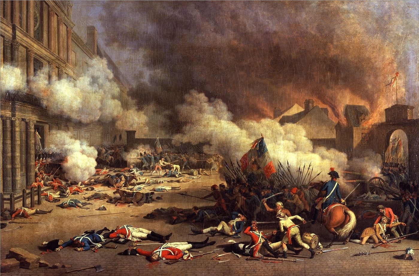 Depiction of the storming of the Tuileries Palace on 10 august 1792